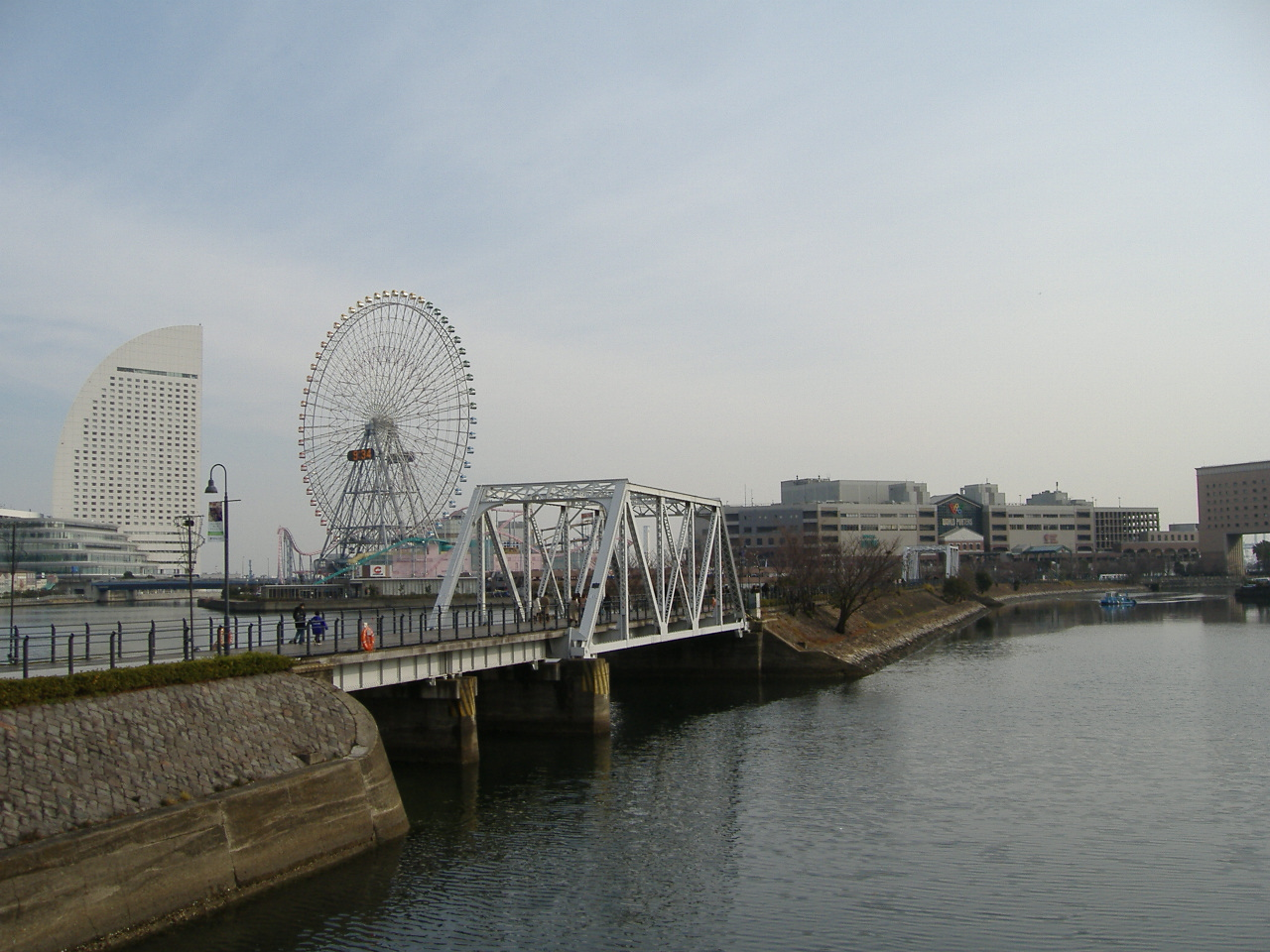 "Kishamichi Promenade" (Yokohama,Japan)